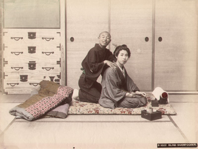 handcolored albumenprint